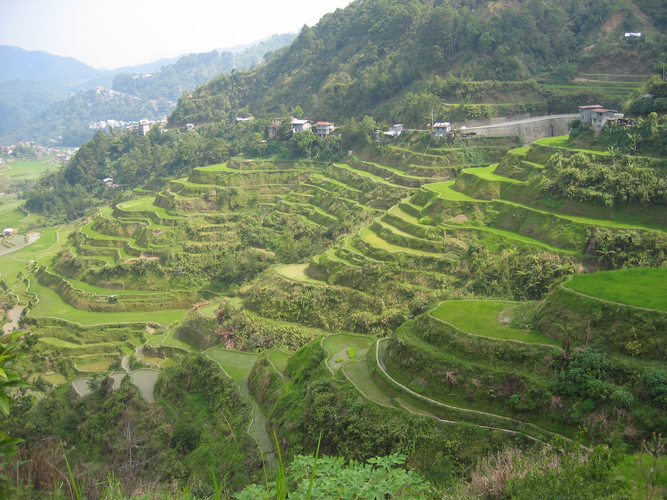 This photo was taken during my 2005 trip to Philippines in the great Banaue.